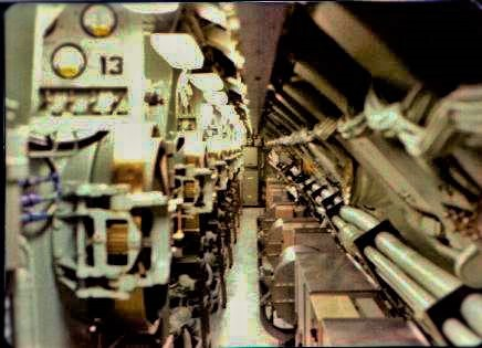 Upper Level Missile Compartment